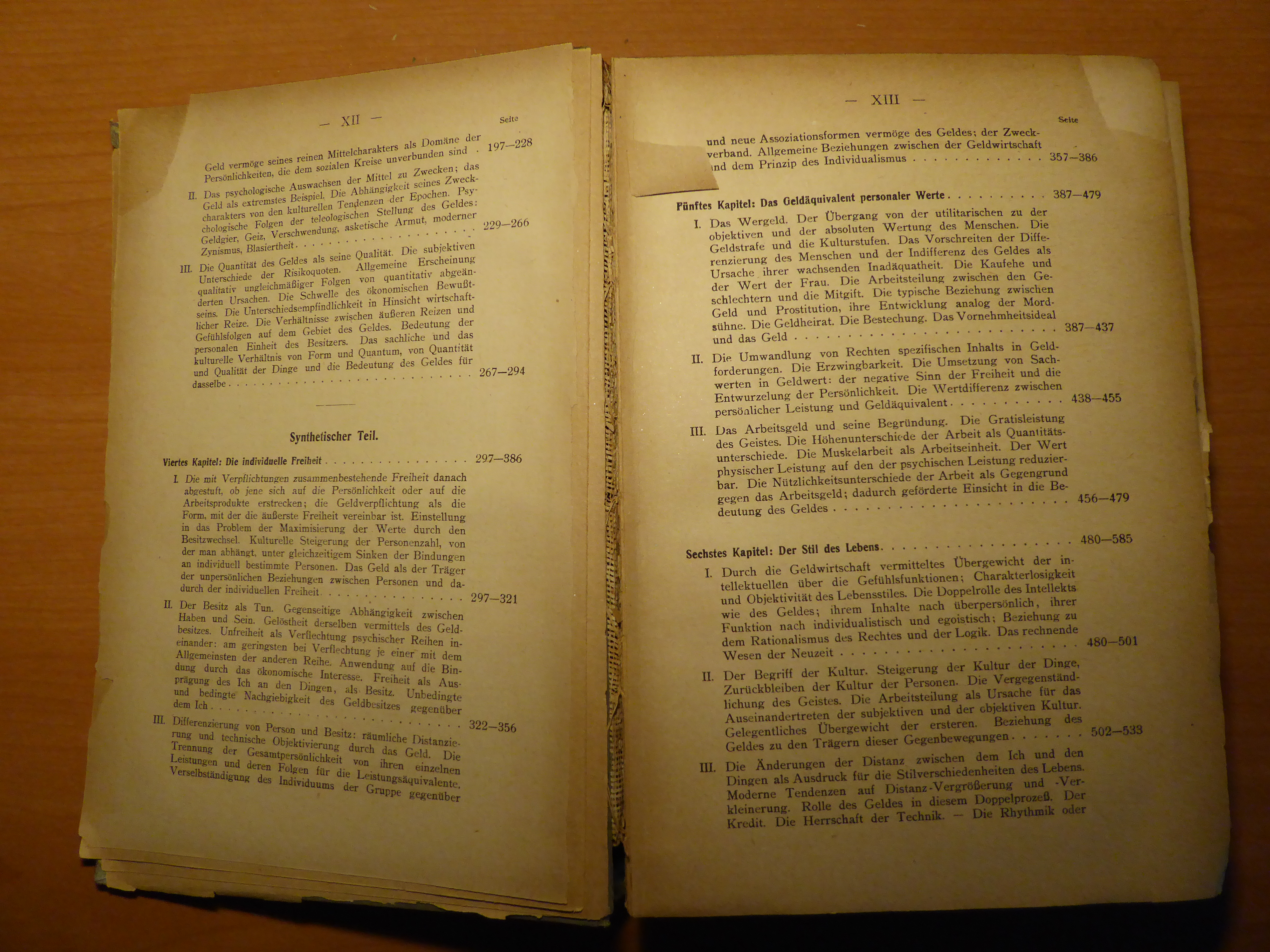 Photograph of a book printed on acid paper that is disintegrating. The book is Georg Simmel, "Philosophie des Geldes," 3rd ed. (Munich and Leipzig: Duncker & Humblot, 1920).